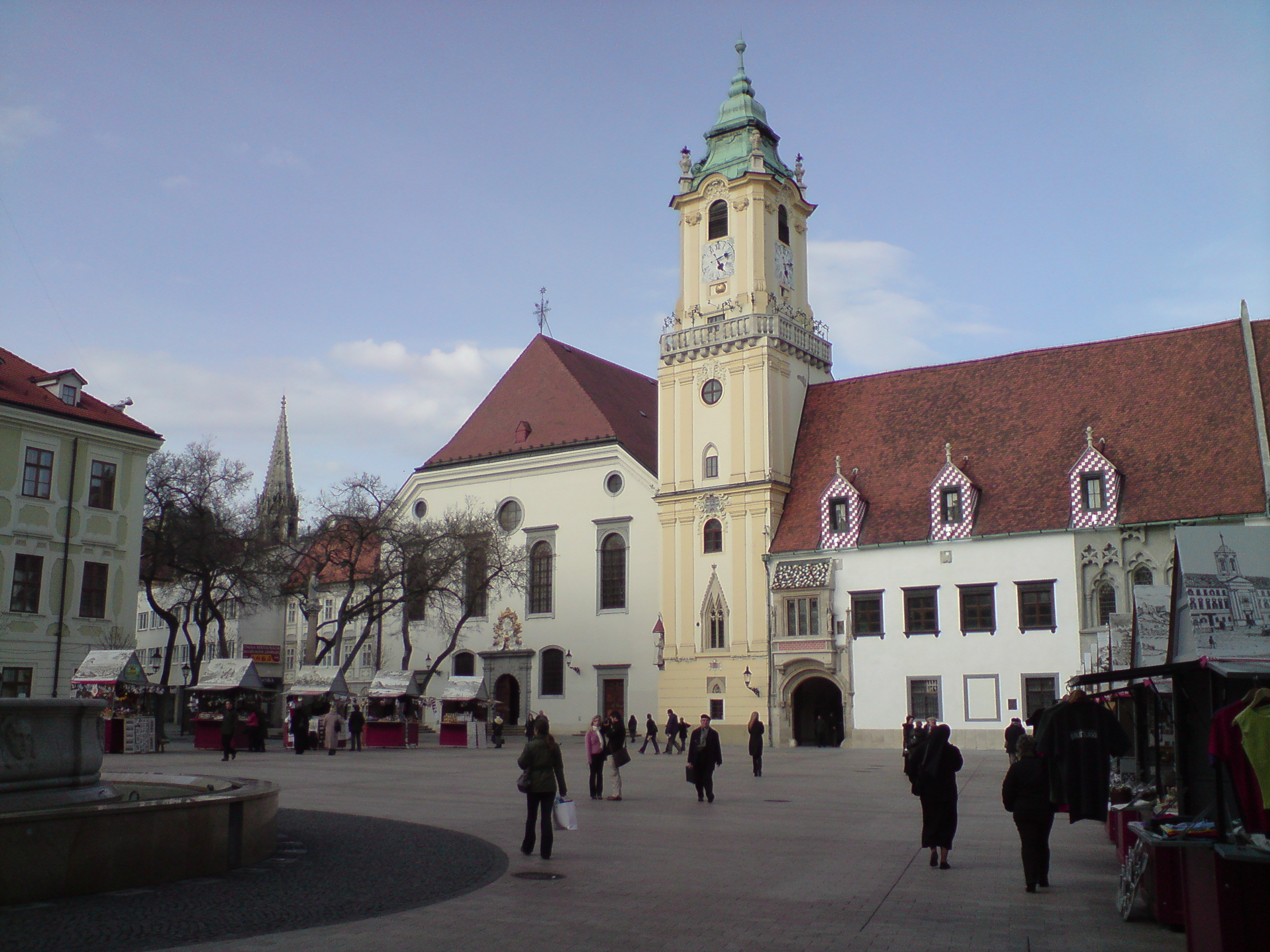 Main square in Bratislava, Slovakia